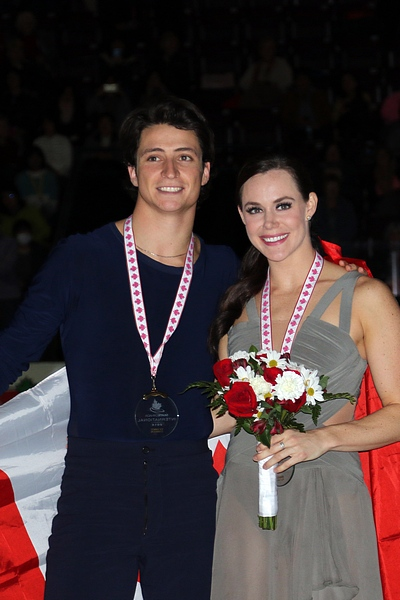 Tessa Virtue and Scott Moir at the 2016 Skate Canada International